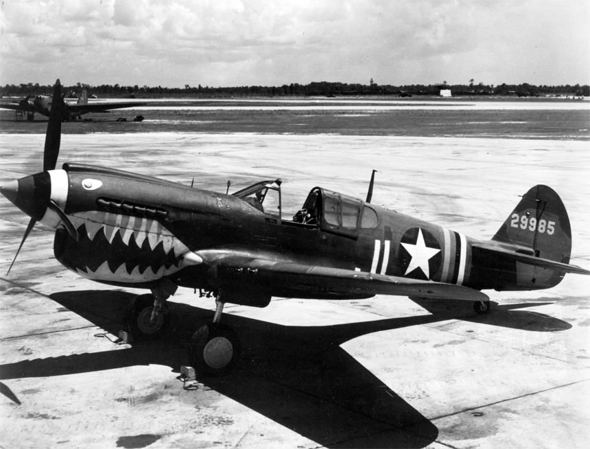 Curtiss P-40, with shark mouth paint.